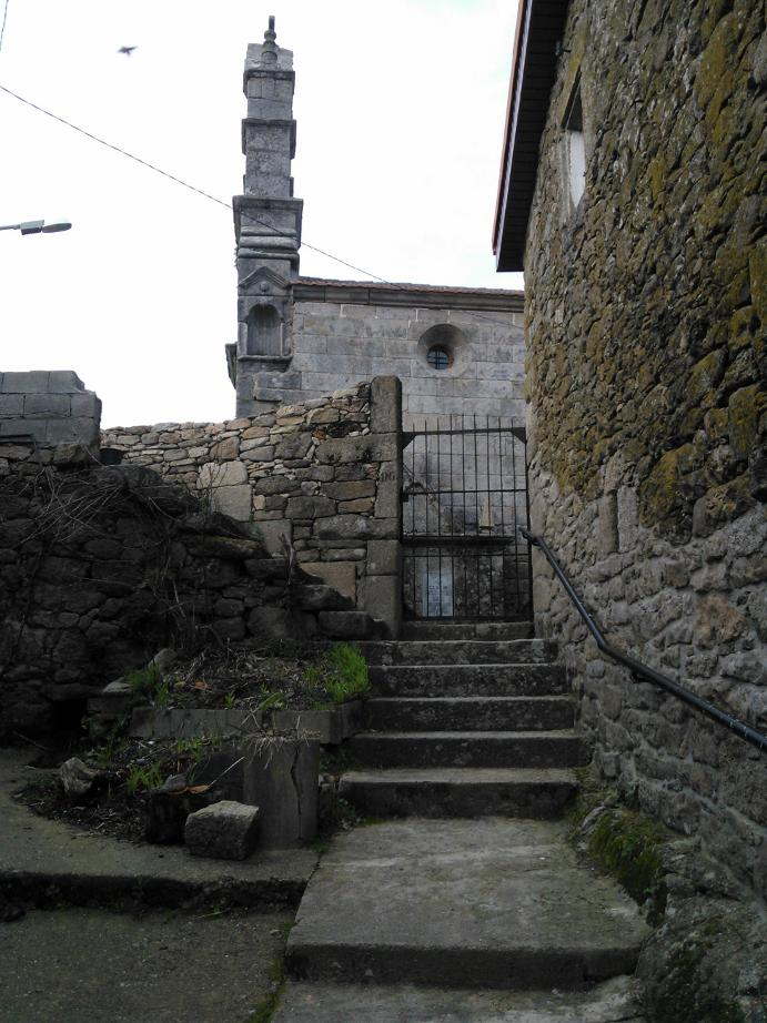 Entrada principal de la Iglesia de San Pedro